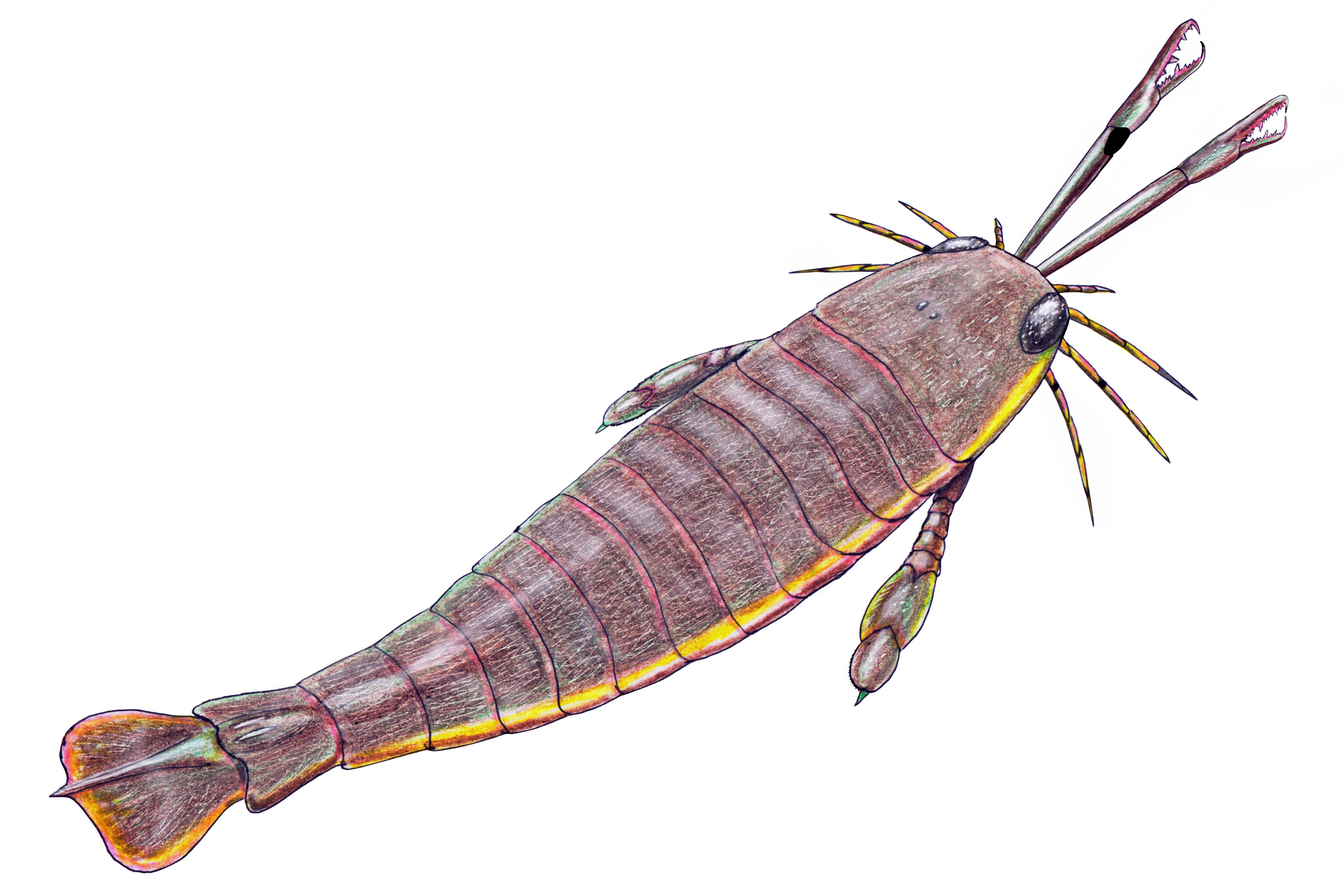 Jaekelopterus rhenaniae - Early Devonian giant Eurypterid. Follows restoration in Braddy, Poschmann and Tetlie (2008)